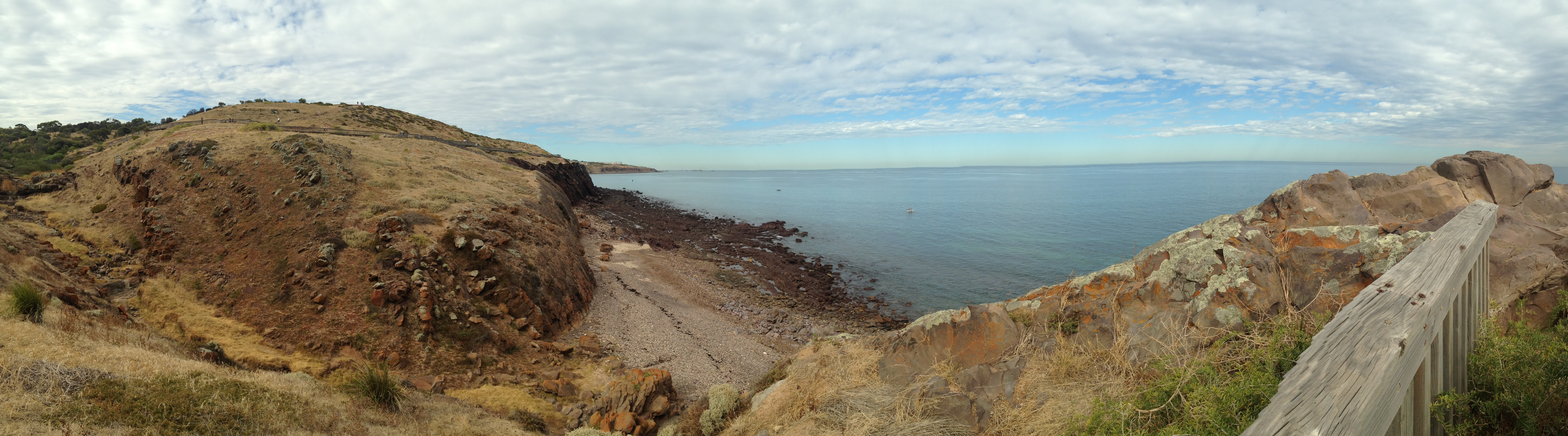 A panorama image taken from the northern part of the park.